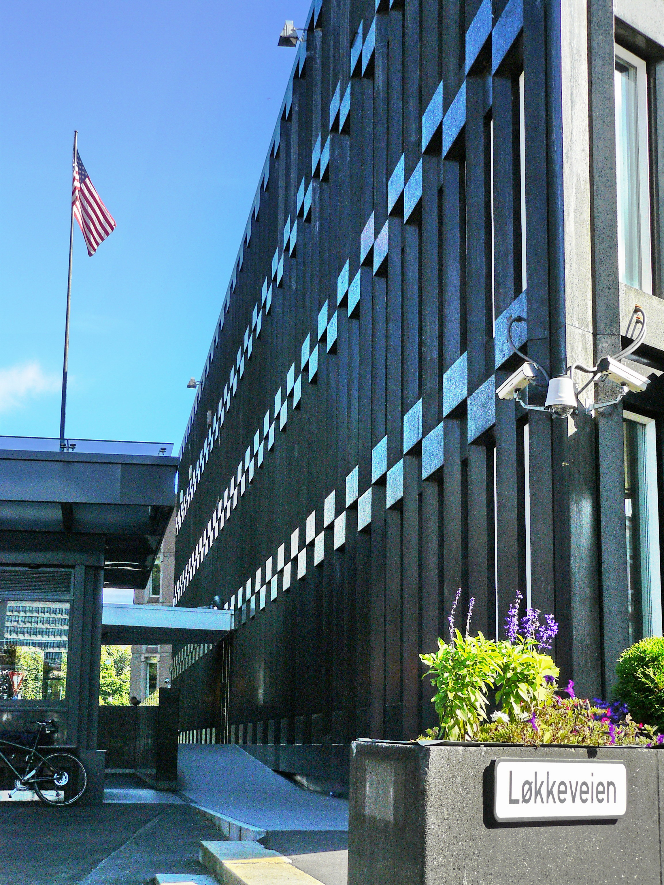 United States Embassy in Norway (until 2017)